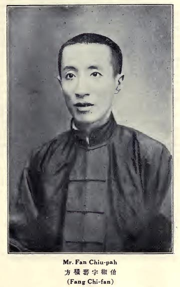 Fang Jifan (1885-1968)